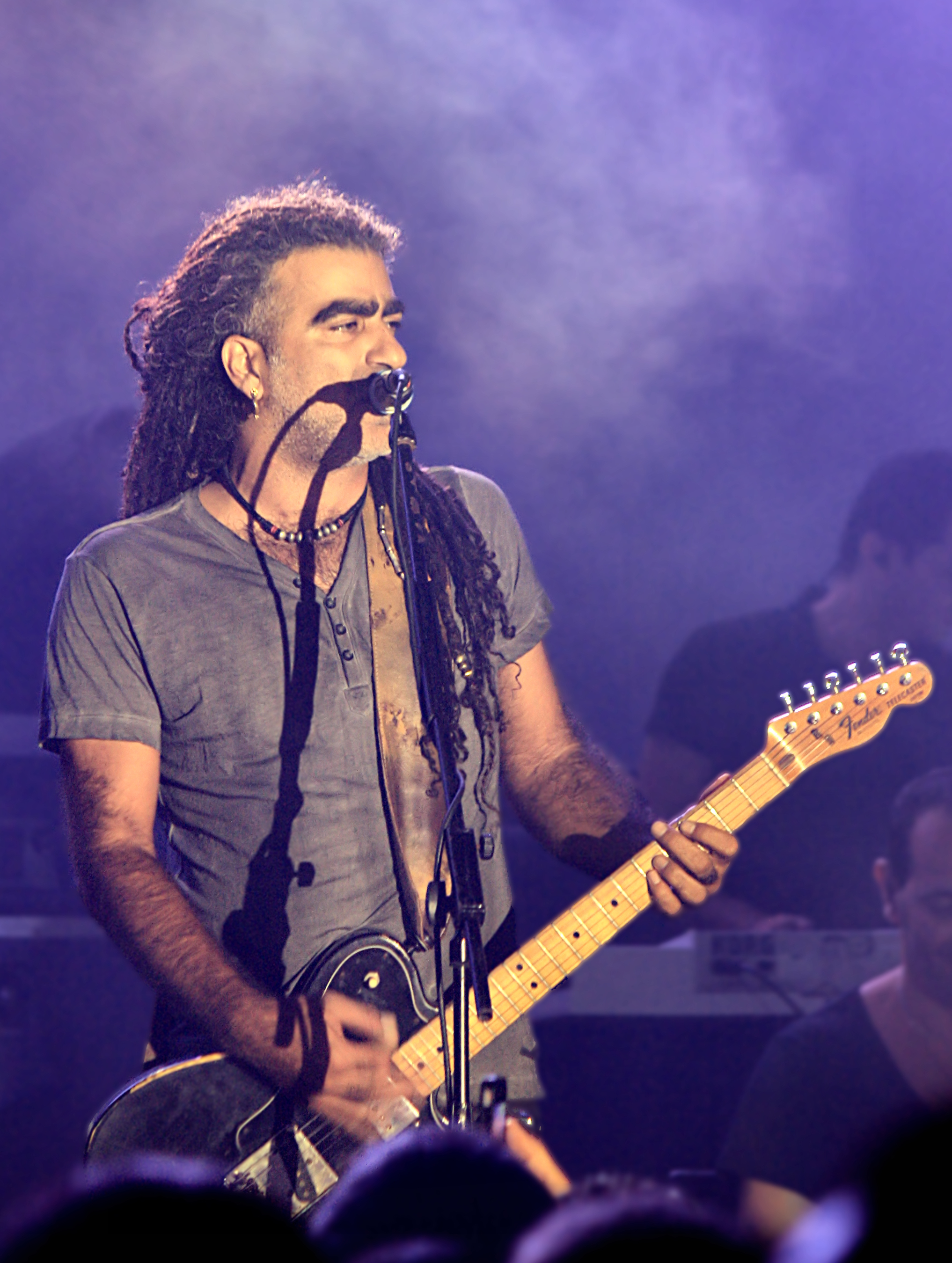 Mosh Ben-Ari.